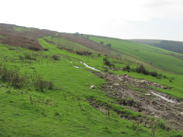 Byway leading towards Mynydd y Gaer